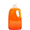 plastic container bottle pvc